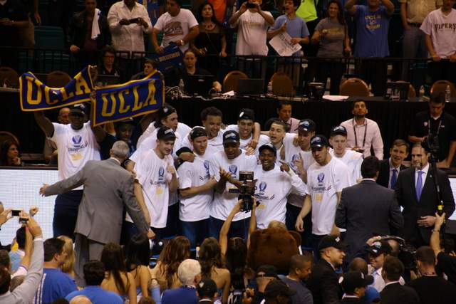 2013–14 UCLA men's basketball team after winning 2014 Pac-12 Tournament